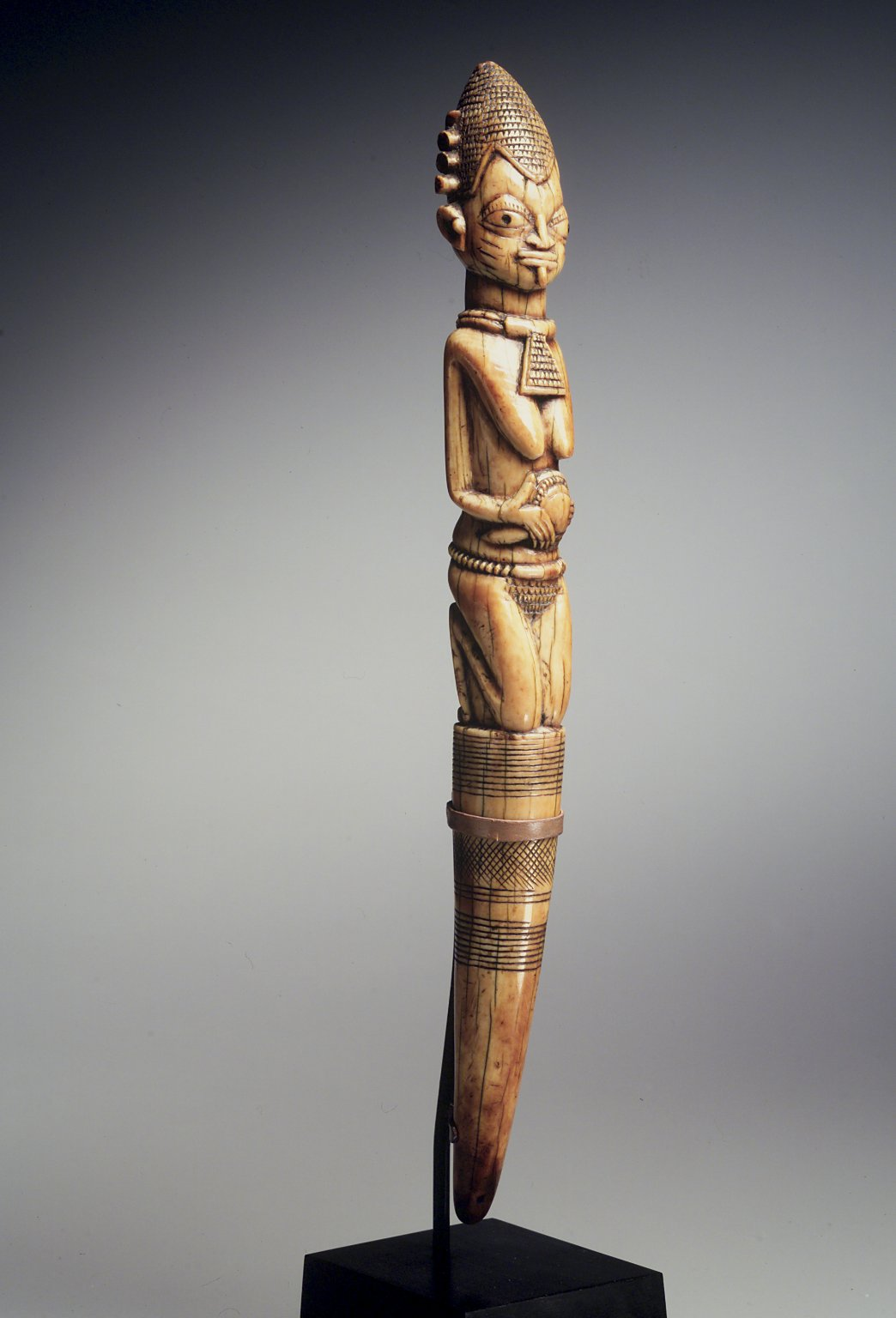 Ivory staff. Upper half carved in the form of a kneeling nude woman wearing only a beaded waist band, a beaded necklace with triangular amulets in the front and back, and an elaborate coiffure. The woman holds a fan in her hands. Her face has a lip labret and three scarification marks on each cheek. The pupil of the left eye has an iron (?) inlay. The inlay of the right eye has been lost leaving behind black residue in its place. The lower pointed end of the staff is circumscribed with shallow narrow lines between bands of cross hatching. Condition: Overall condition excellent, numerous hairline cracks in surface.